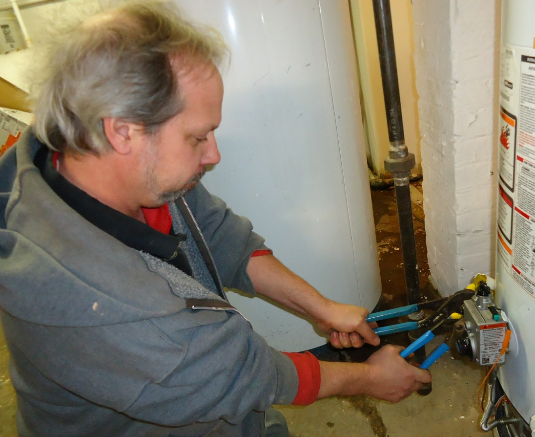 Master plumber Robert Beveridge tightens a fitting using two pliers - one set of pliers is used to stabilize the fitting while the other one turns the nut. A single set of pliers applied to these pipes might cause a different section of the pipe to break off from the pressure.